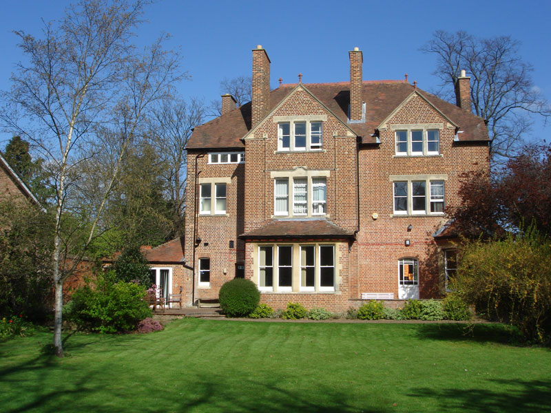 The front view of the Swan building, d'Overbroeck's College, Oxford.